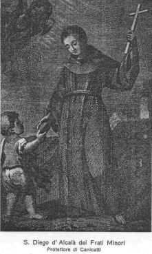 portrait of saint Didacus of Alcalá of the Order of Friars Minor